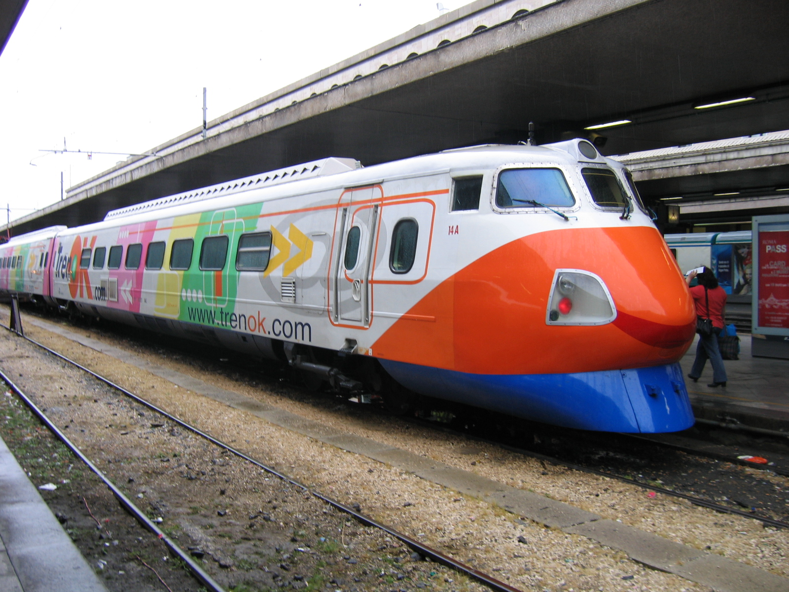 ETR.450 trenOk low cost service in Roma Termini